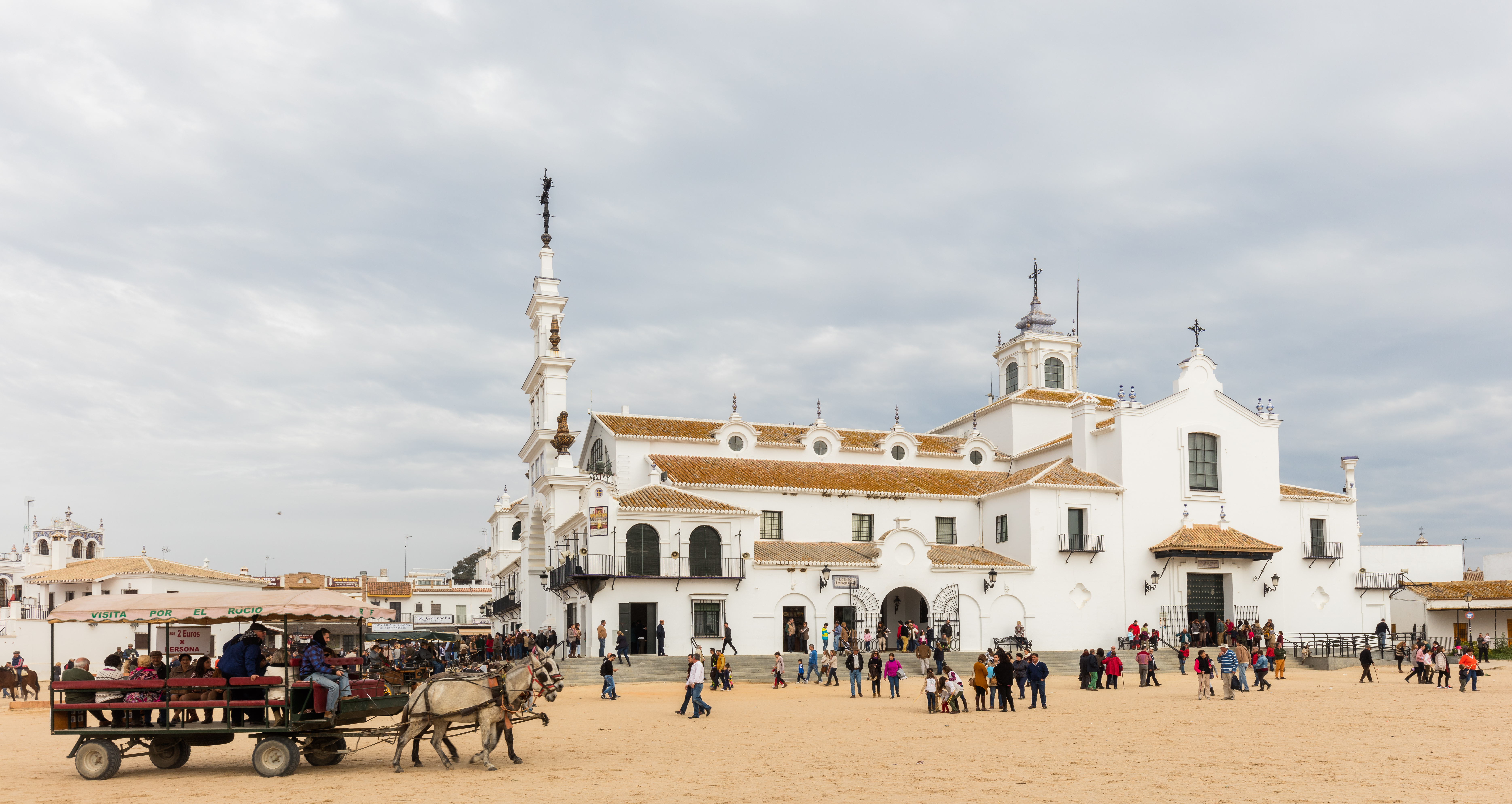 Ermita del Rocío, El Rocío, Huelva, Spain